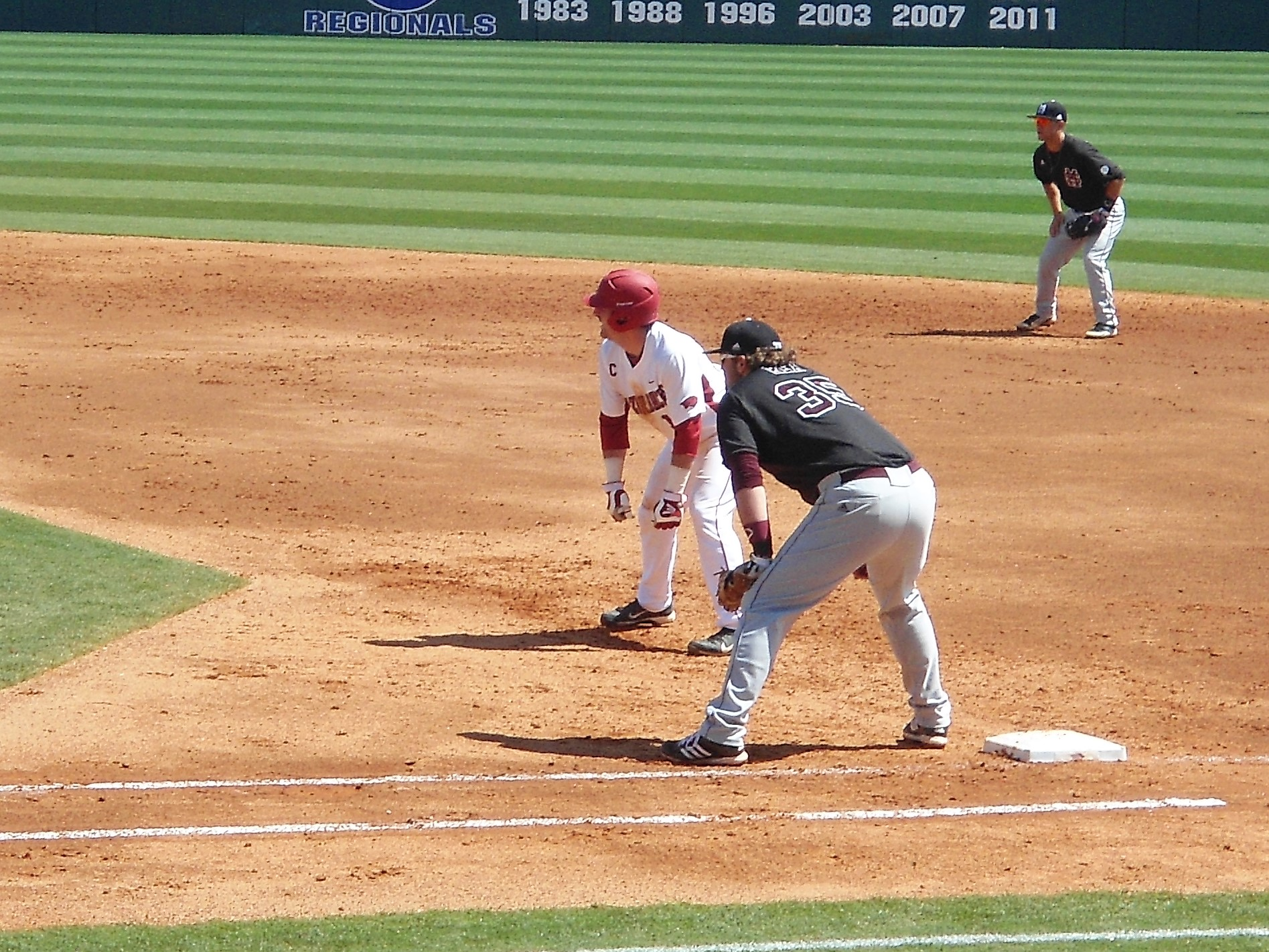 Jake Wise leads off first base for the Arkansas Razorbacks with Mississippi State 1B Wes Rea holding him on